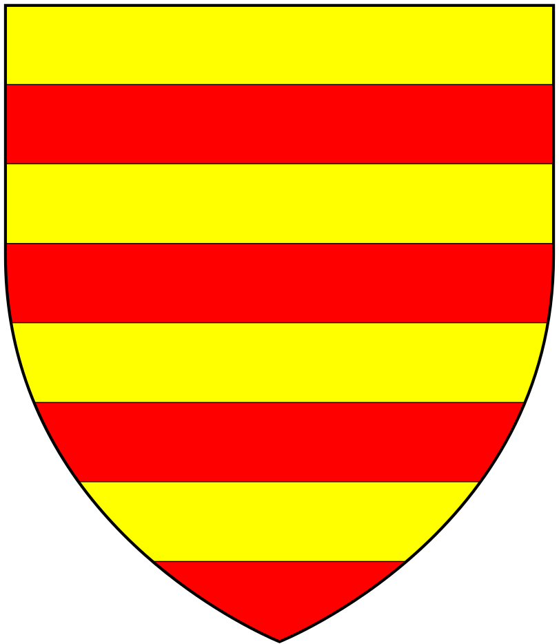 Arms of Poyntz: Barry of eight or and gules. Poyntz family: Feudal barons of Curry Mallet in Somerset. Later seated at Iron Acton in Gloucestershire.